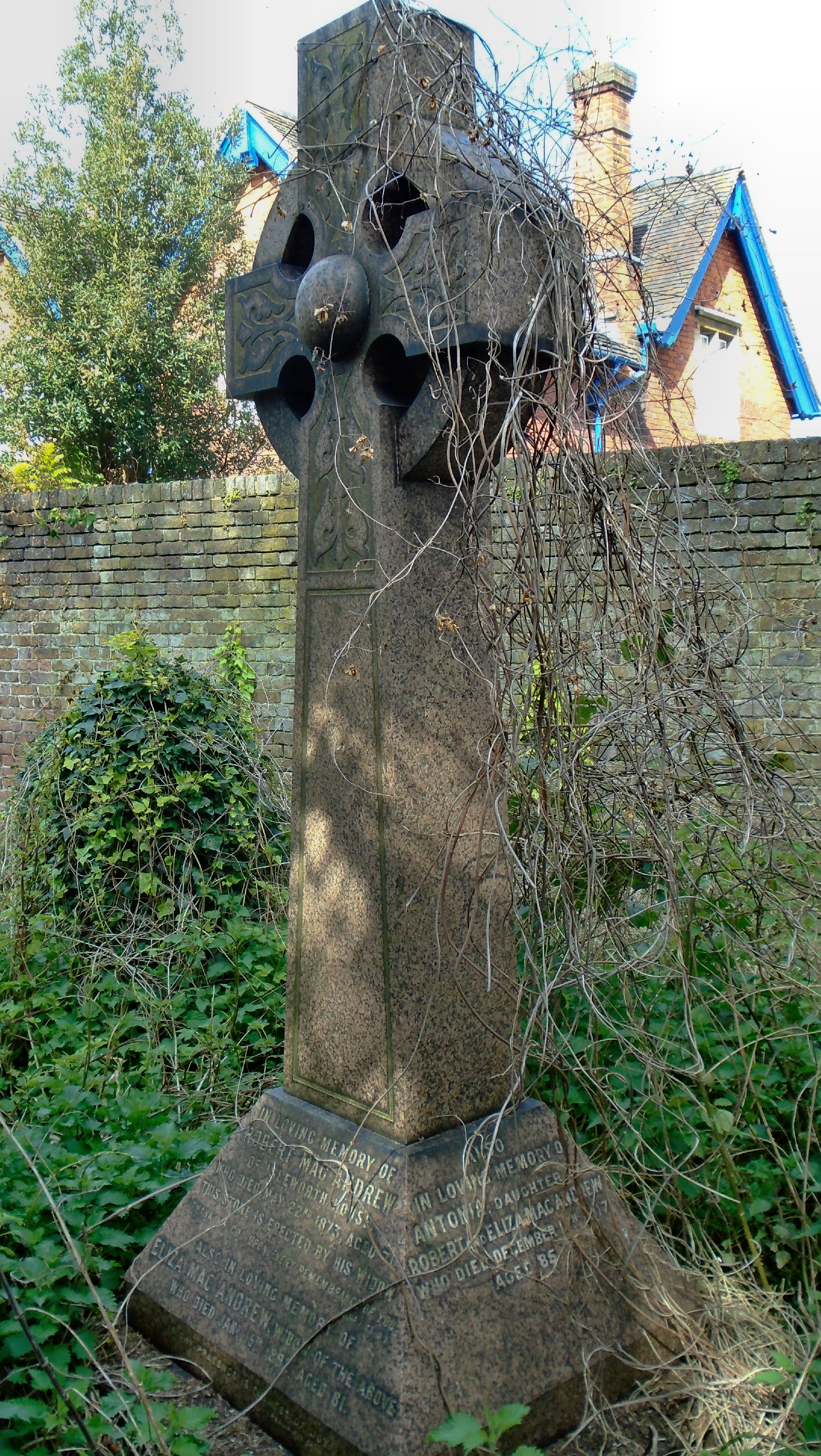 Isleworth, All Saints churchyard, Memorial to Robert MacAndrew (d 1873) and wife